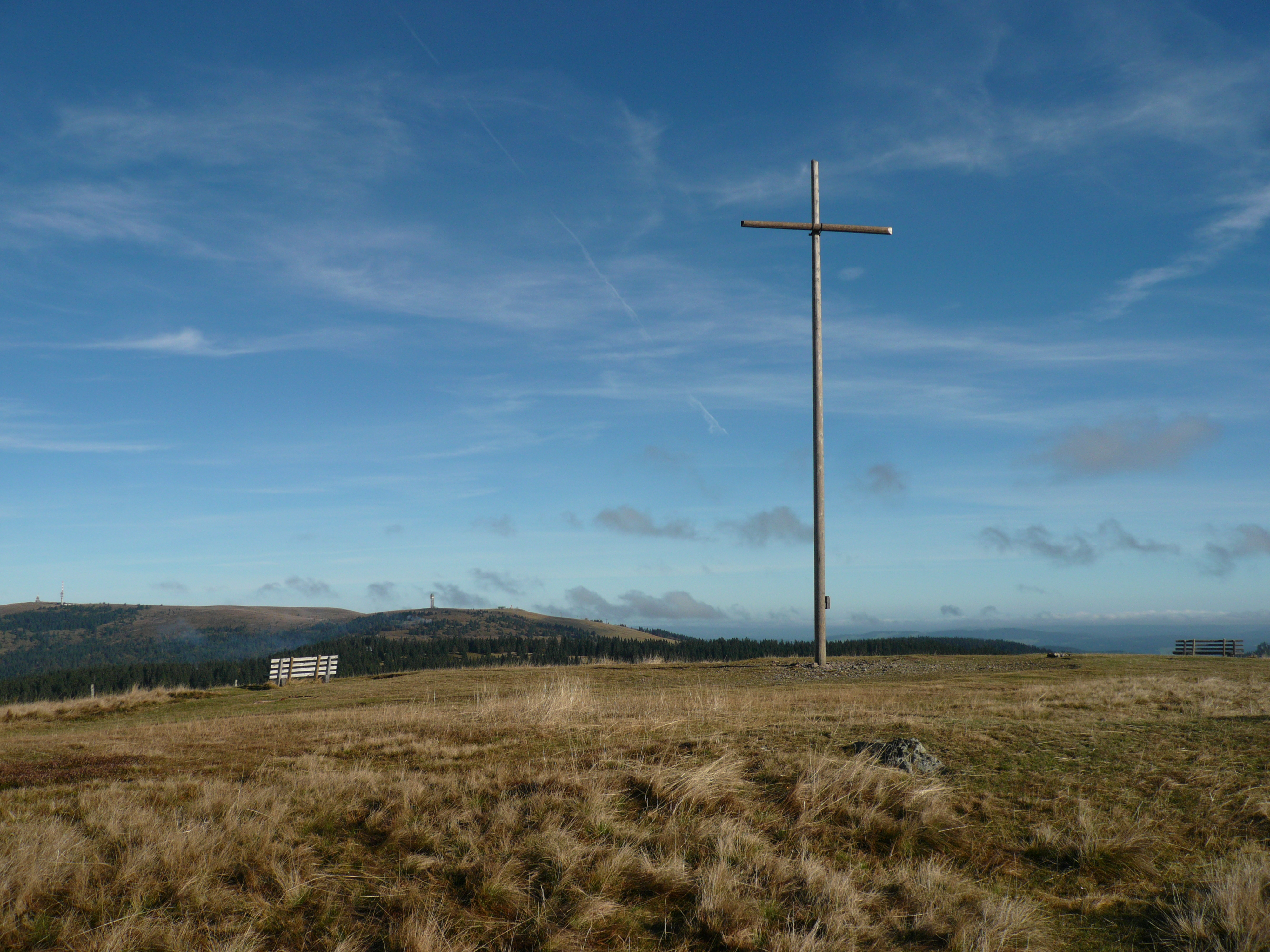 On top of mountain Herzogenhorn, Black Forest view to the Feldberg